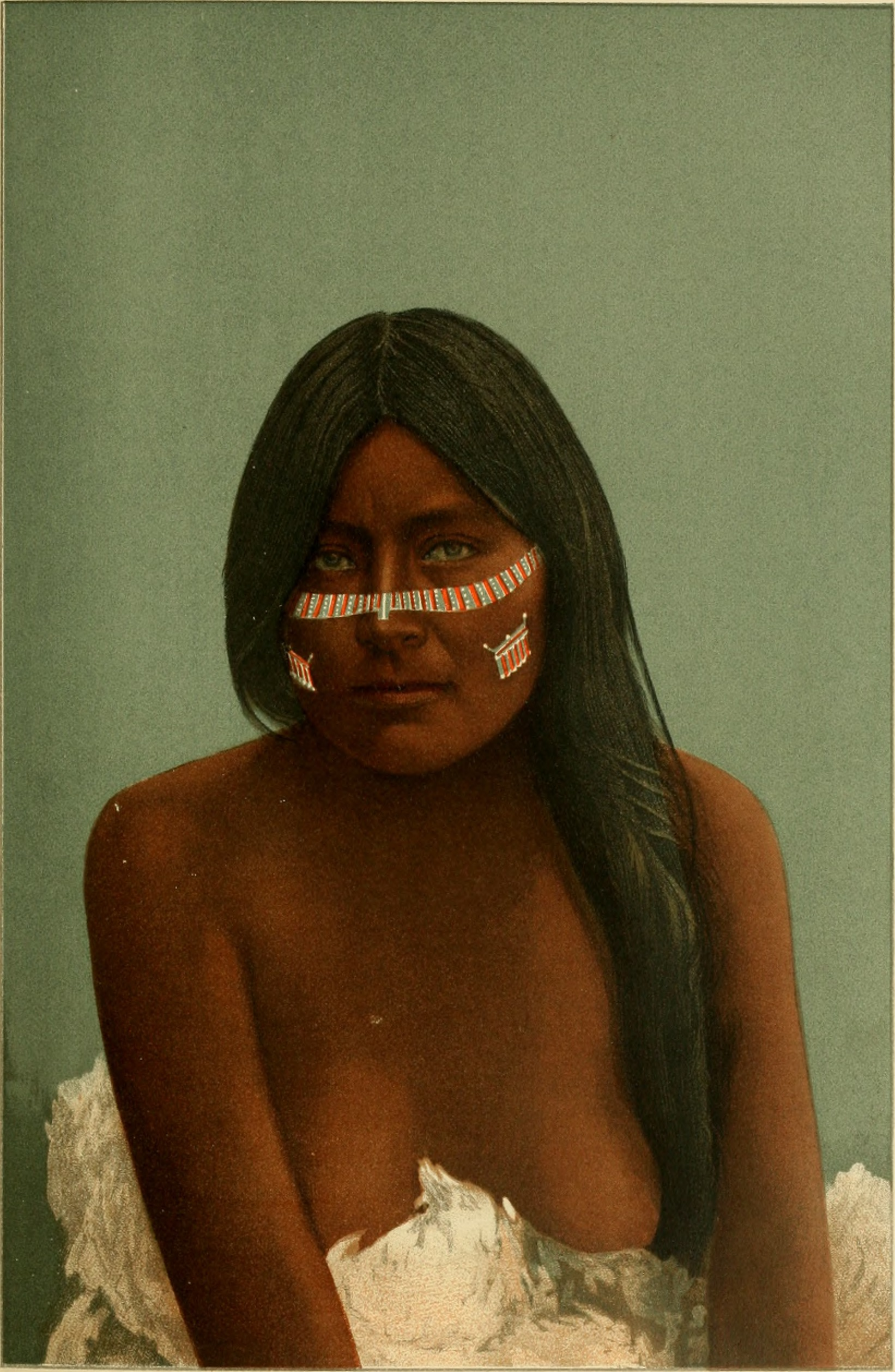 Title: Annual report of the Bureau of American Ethnology to the Secretary of the Smithsonian Institution Year: 1895 (1890s) Authors: Smithsonian Institution. Bureau of American Ethnology Subjects: Ethnology; Indians Publisher: Washington : U. S. Govt. Print. Off. Text Appearing Before Image: BUREAU OF AMERICAN ETHNOLOGY SEVENTEENTH ANNUAL REPORT PL XXIV Text Appearing After Image: SERI BELLE